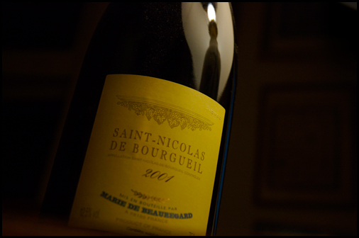 Loire Valley red wine